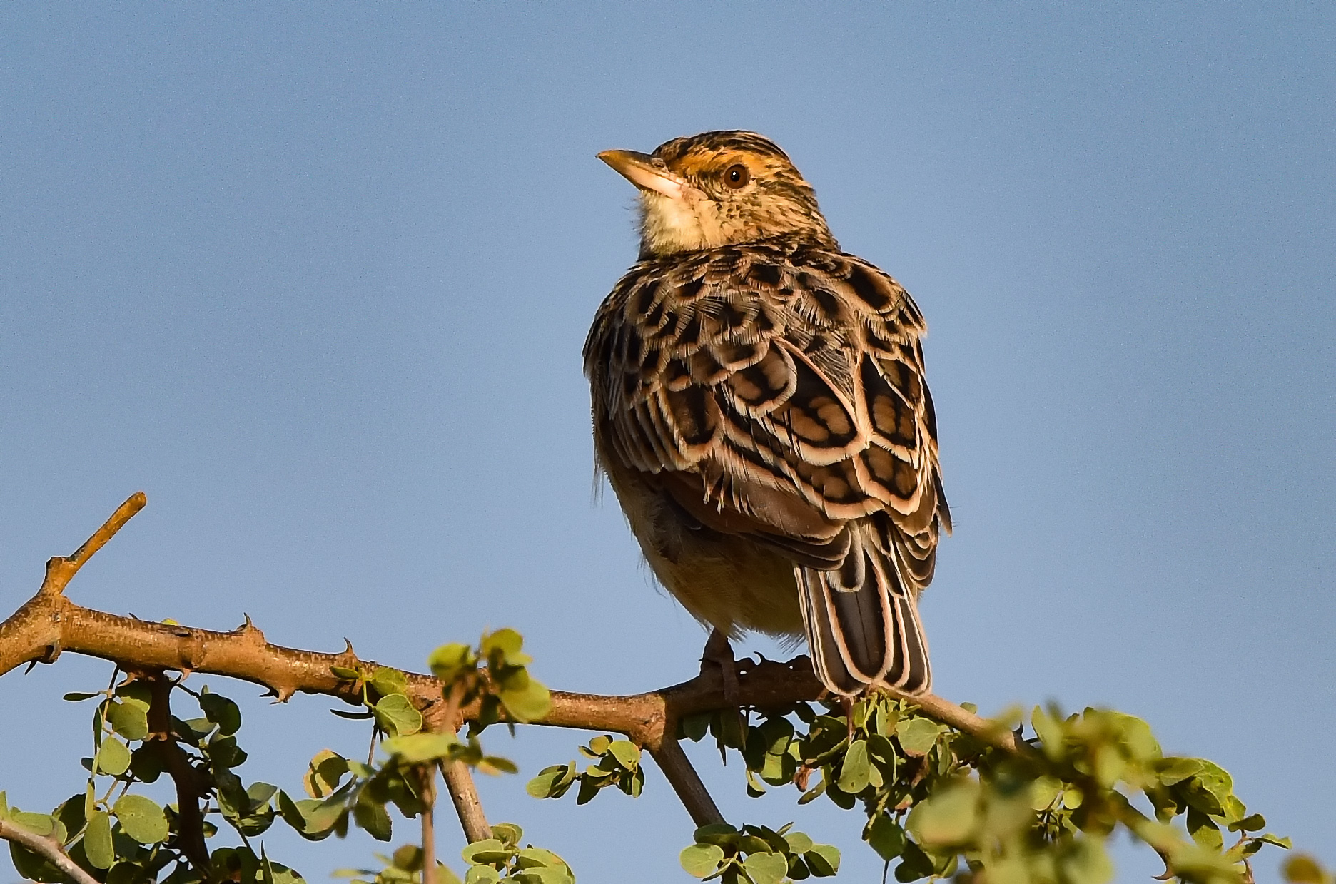 Kenya